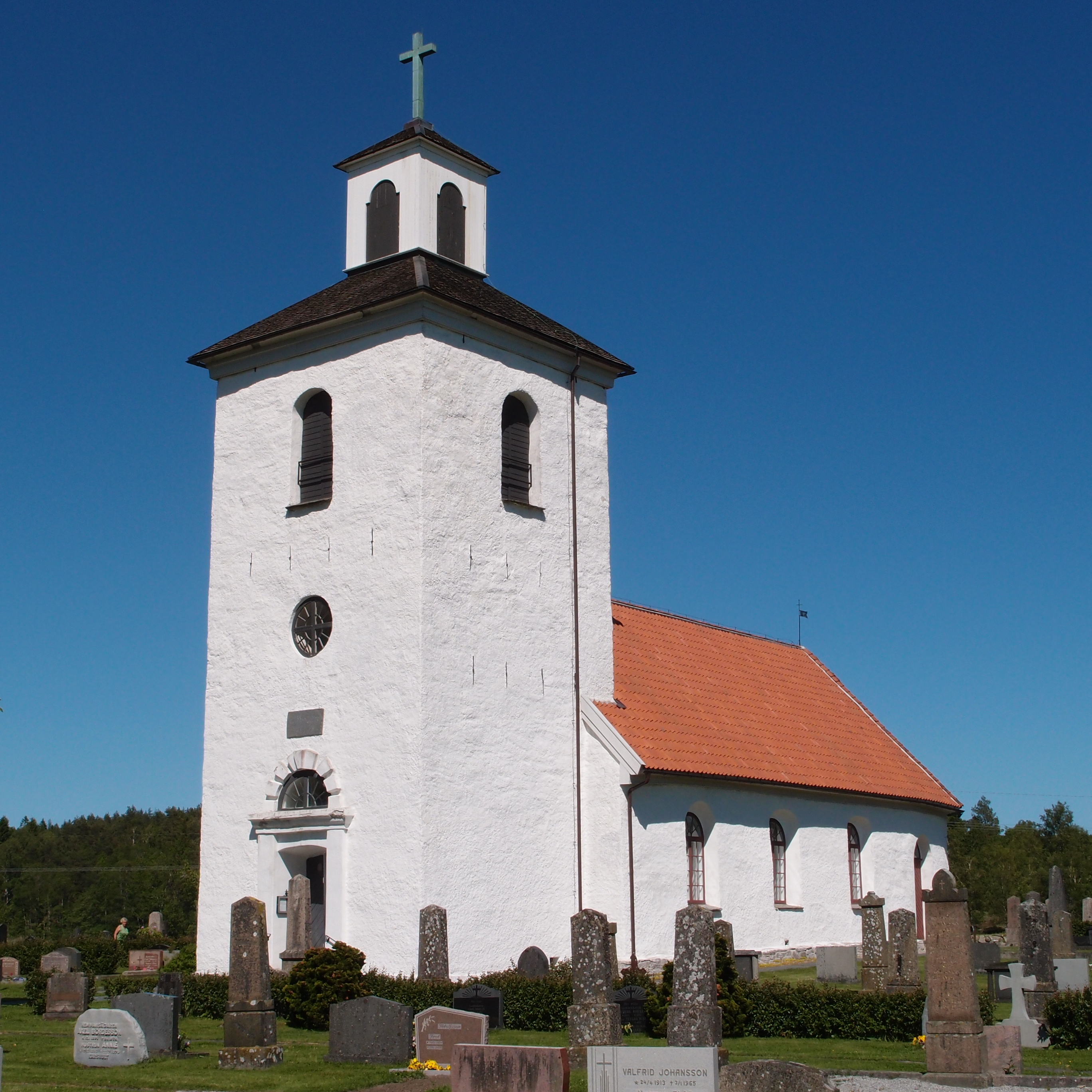 Gällinge Church